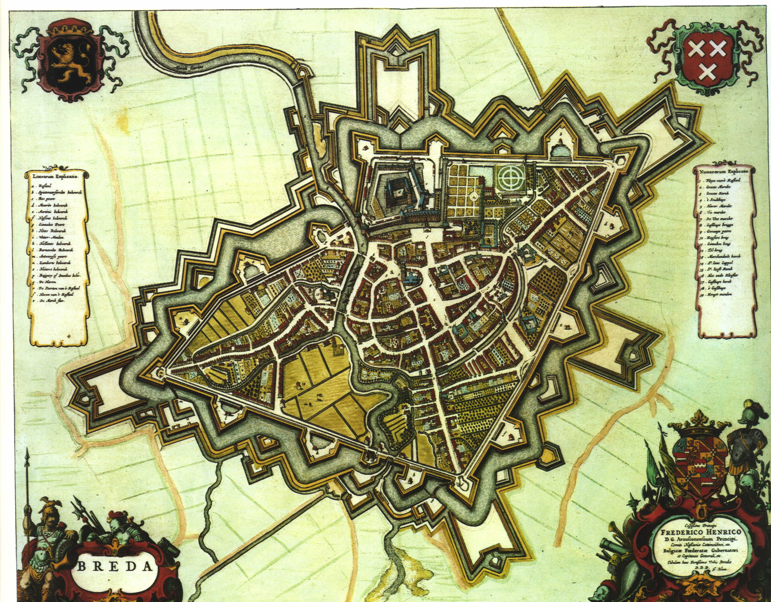 Breda from"Blaeu's Toonneel der Steden"(Dutch city maps, Edited by Willem and Joan Blaeu), 1652.